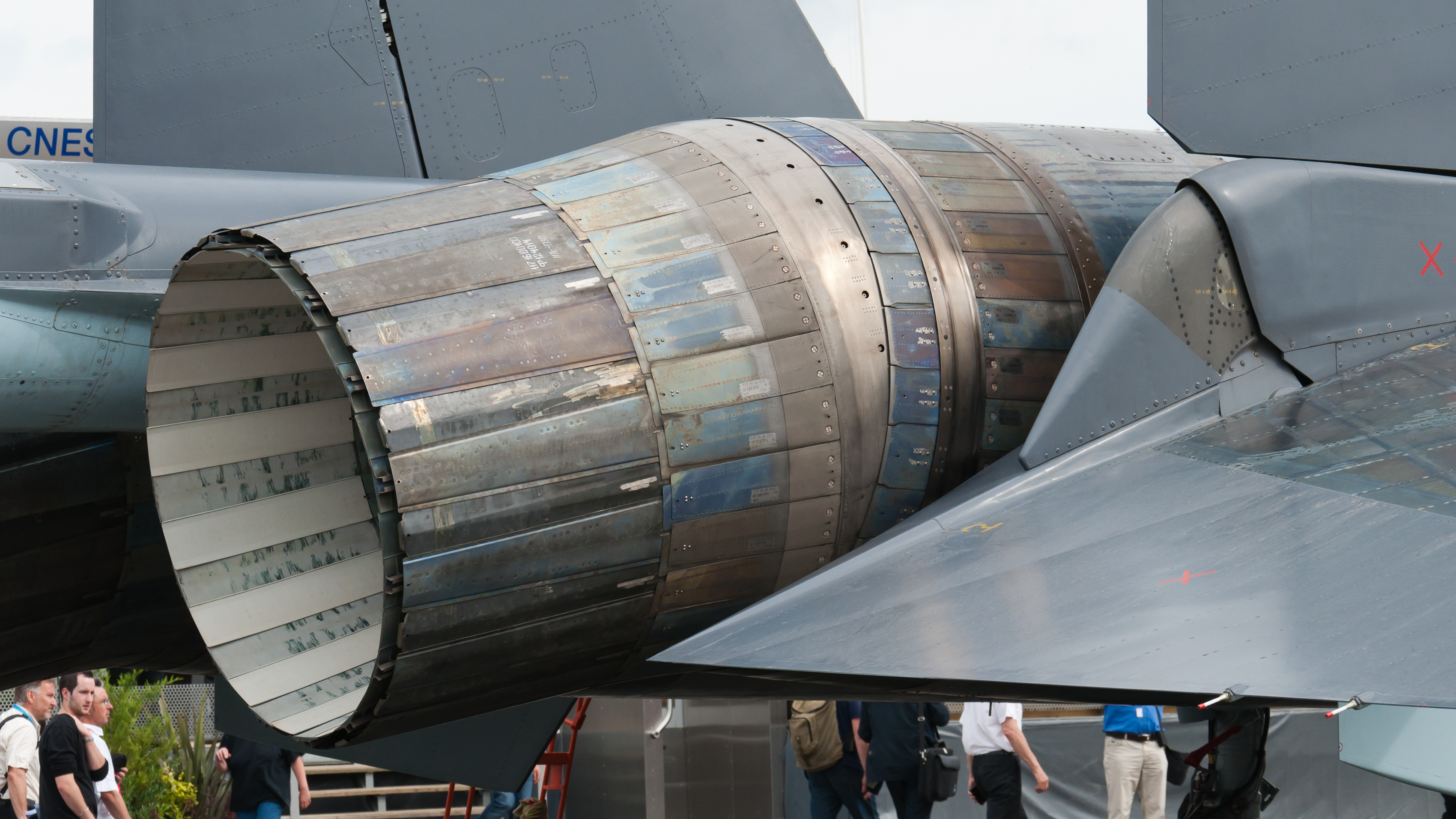 Thrust vectoring nozzle on a Sukhoi Su-35S (reg. 07 RED, c/n unknown) at Paris Air Show 2013.